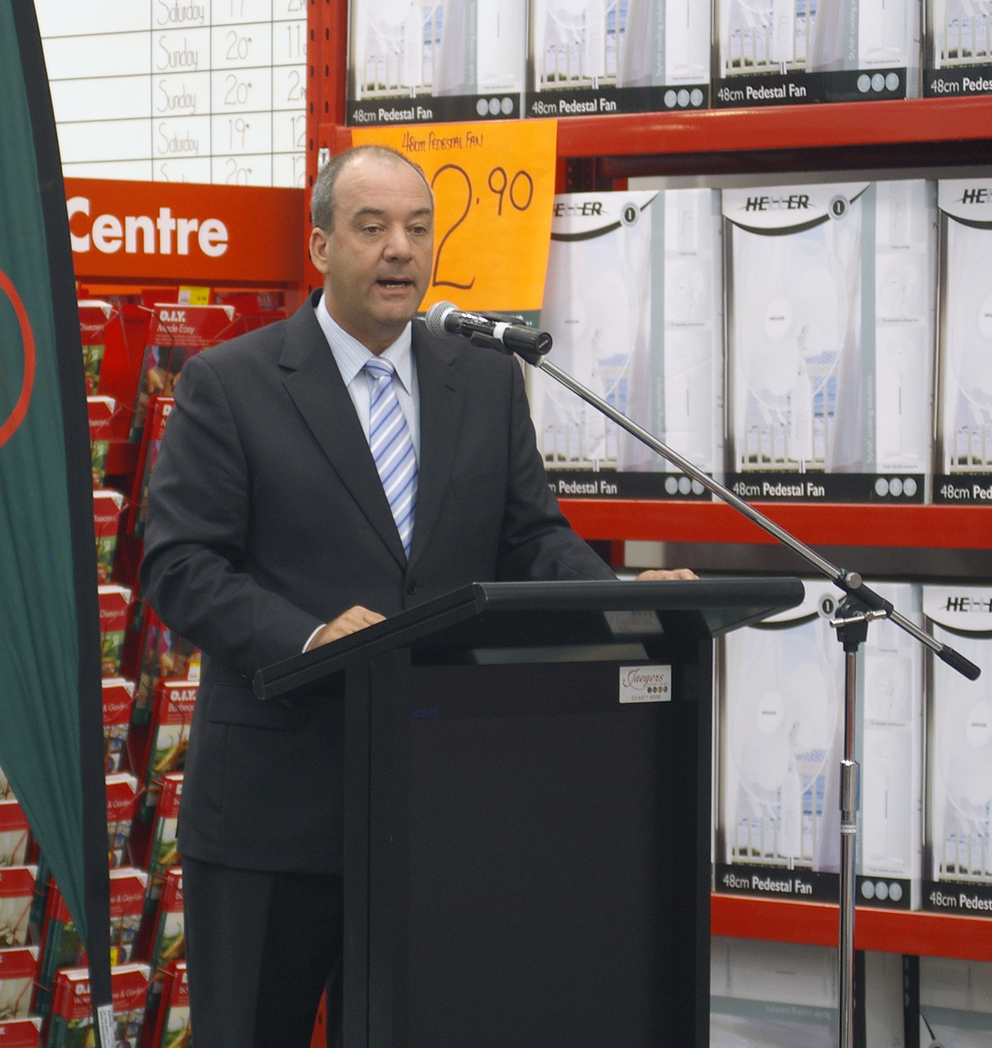 Daryl Maguire at the official opening of Bunnings Warehouse Wagga Wagga.